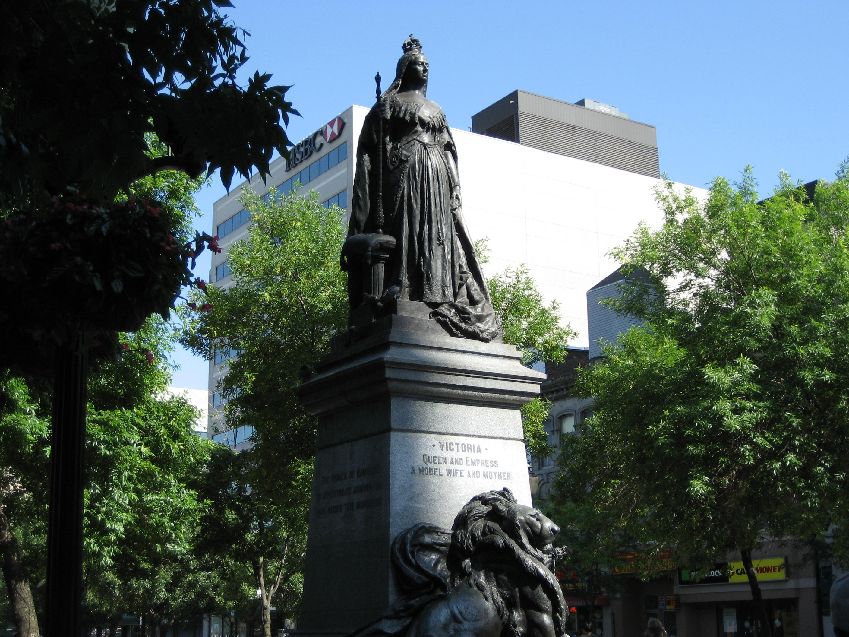 Queen Victoria statue, Gore Park, downtown Hamilton